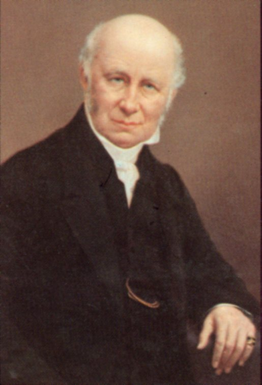 Francis Edward Witts 1783–1854 (cropped)